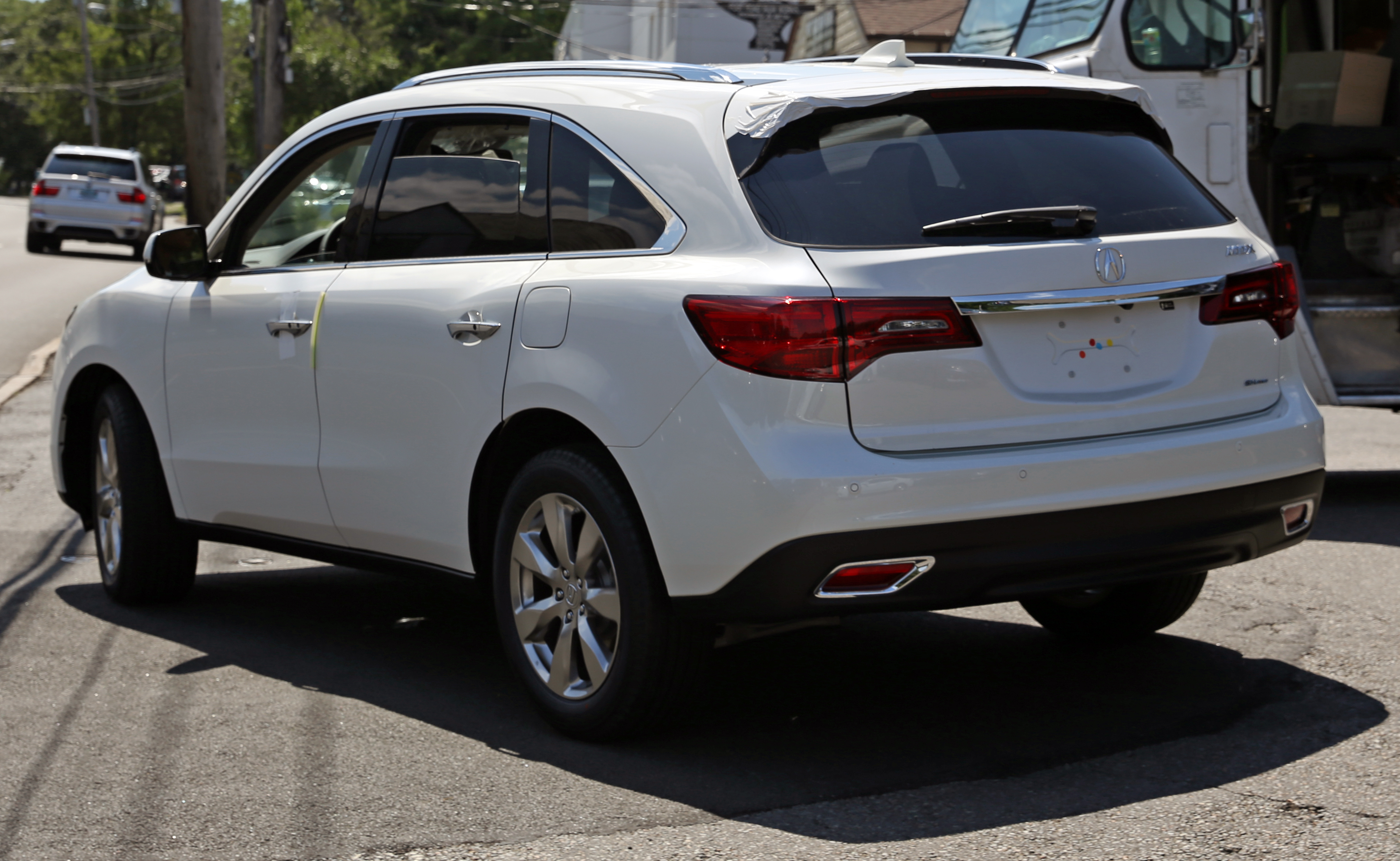 Rear view of 2014 Acura MDX, third generation.